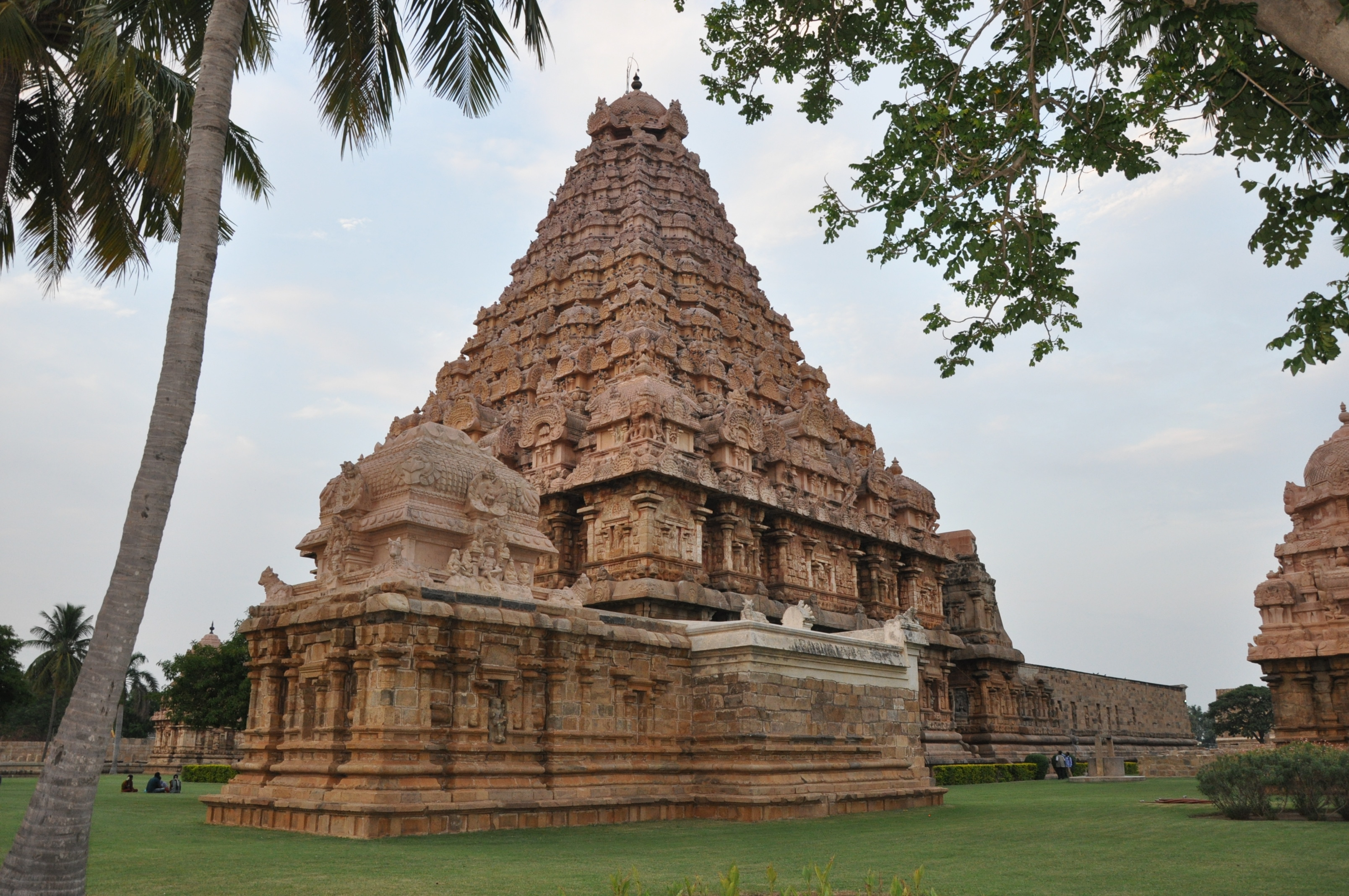 Brihadisvara Temple of Gangaikonda Cholapuram .Location: Gangaikonda Cholapuram, Near Jeyankondam, Ariyalur District, Tamil Nadu, India.